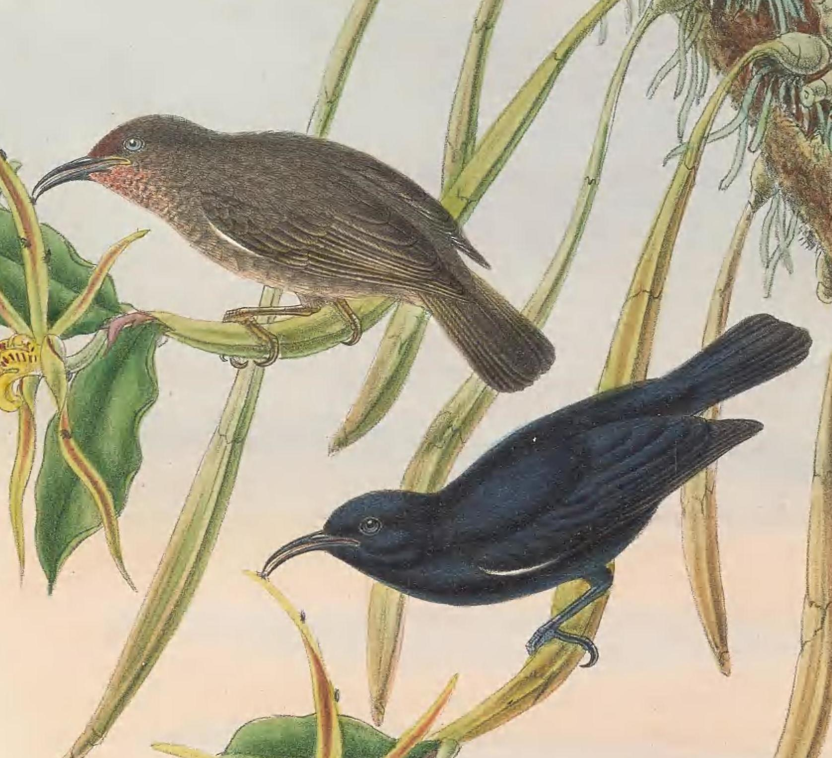 Myzomela nigrita in The birds of New Guinea and the adjacent Papuan islands, including many new species recently discovered in Australia. v.3. (Plate 72)